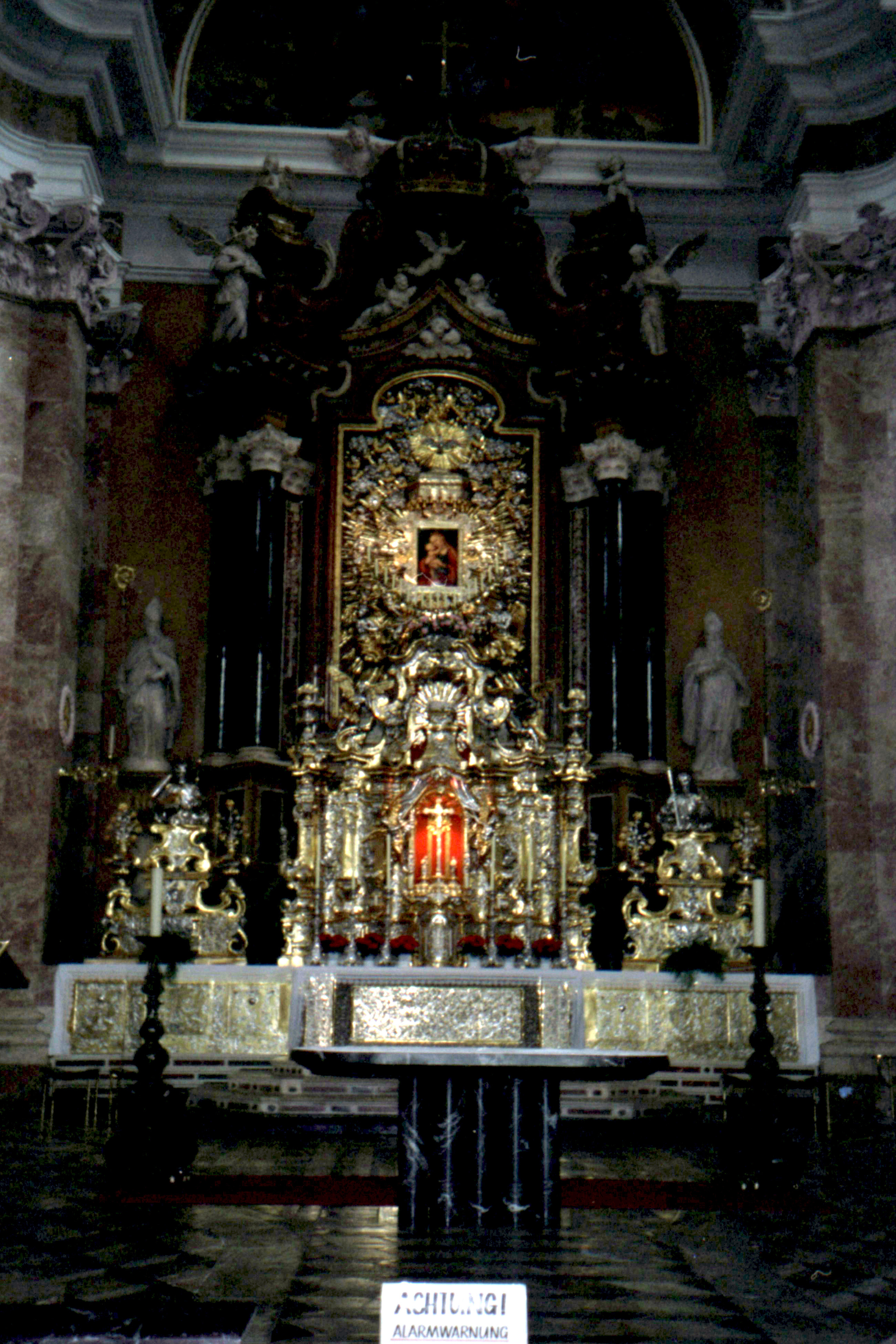 Altar of the chapel.